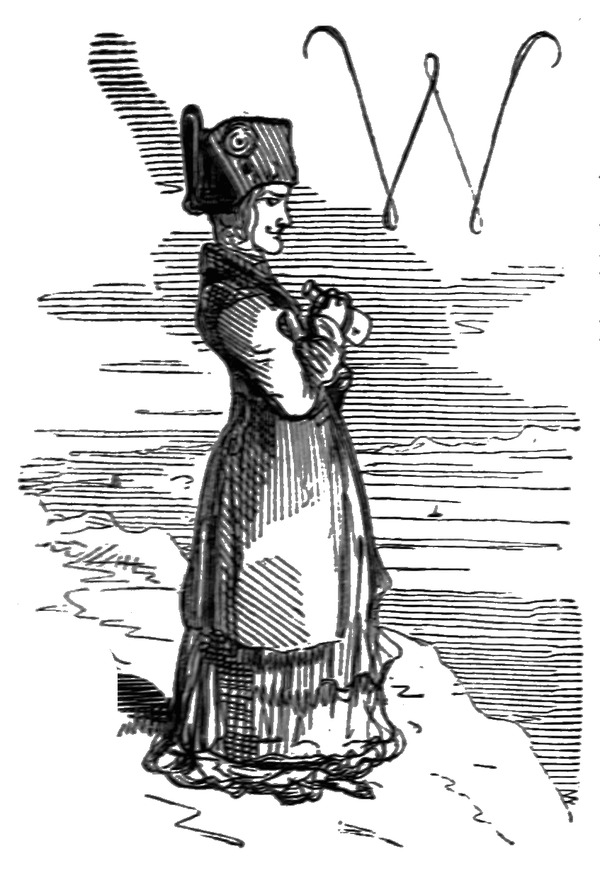 Becky as Napoleon, after Benjamin Robert Haydon's Napoleon Musing at St Helena, an untitled image from the novel. The number indicates the Djvu page number of the Wikisource transclusion.